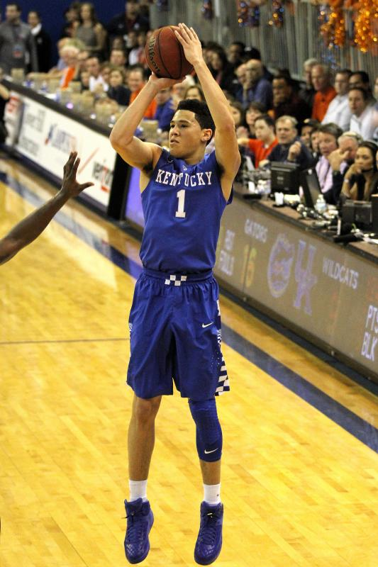 Devin Booker Scored 12 Points against the Florida Gators